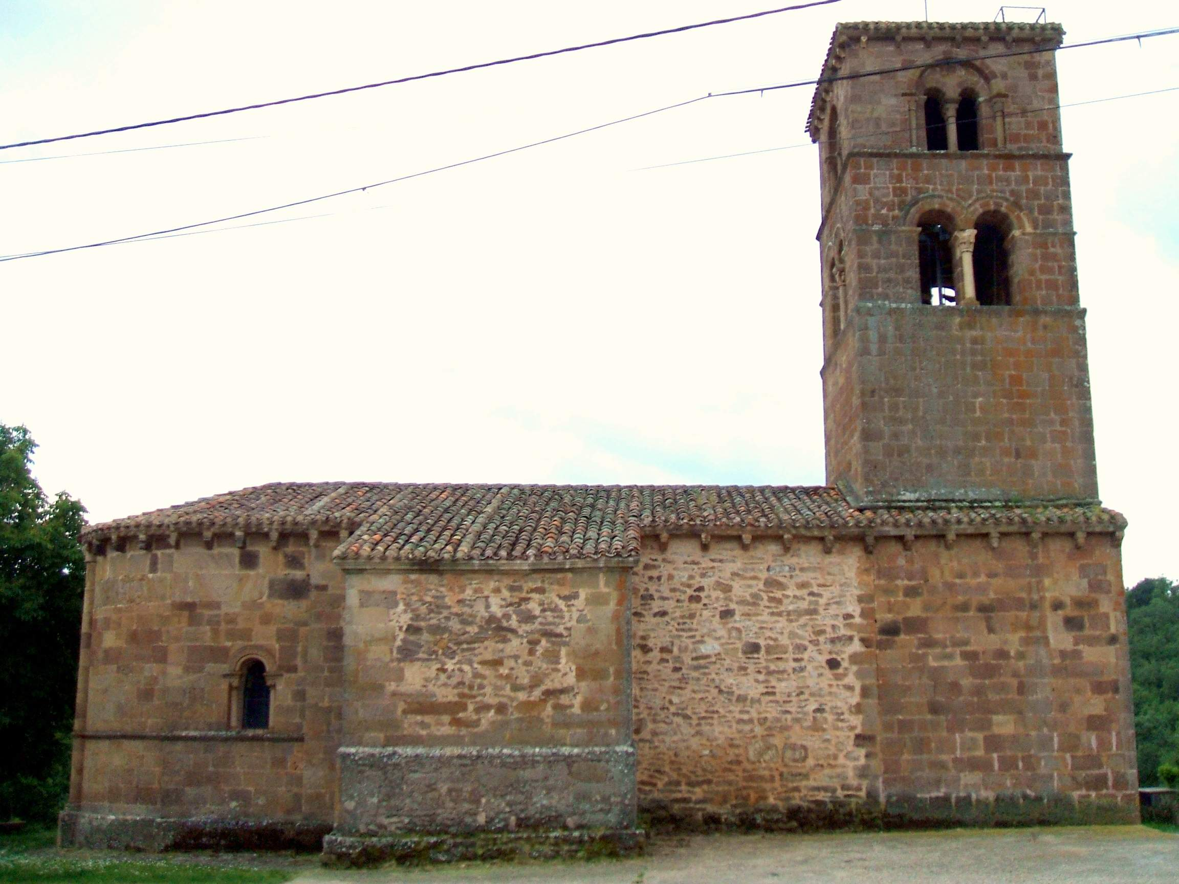 Vizcainos (Burgos) - Iglesia de San Martin de Tours